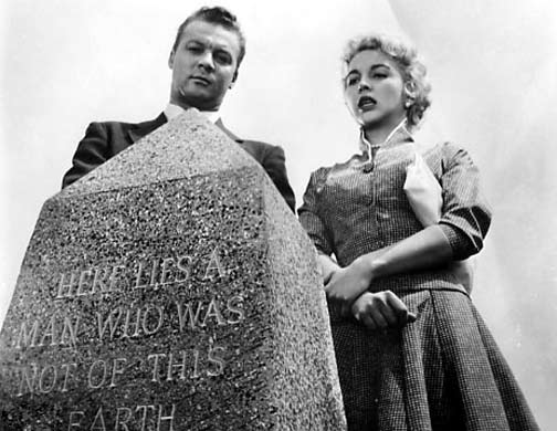 Morgan Jones & Beverly Garland in Not of This Earth - cropped screenshot